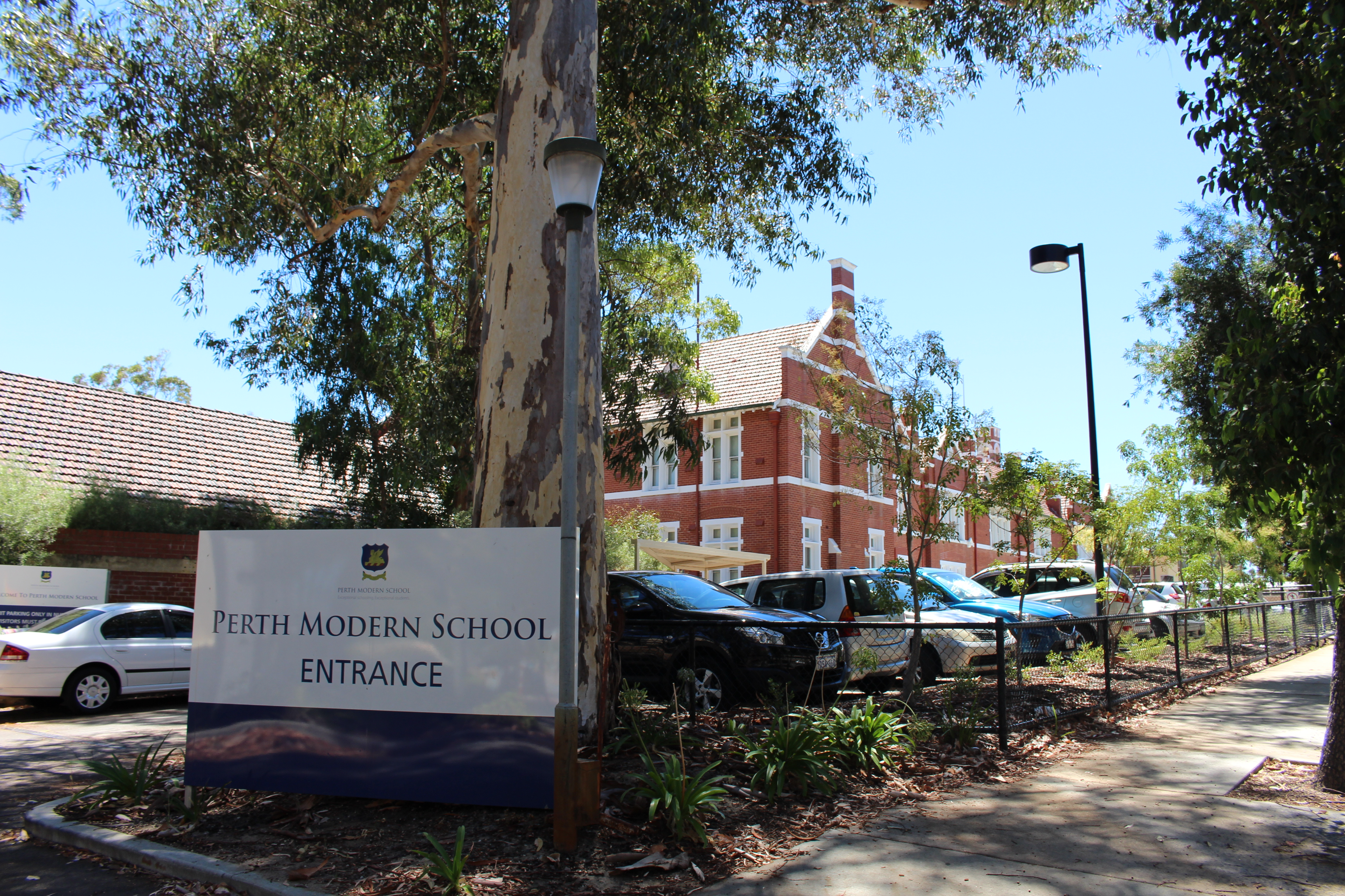 Perth Modern School in Subiaco, Western Australia